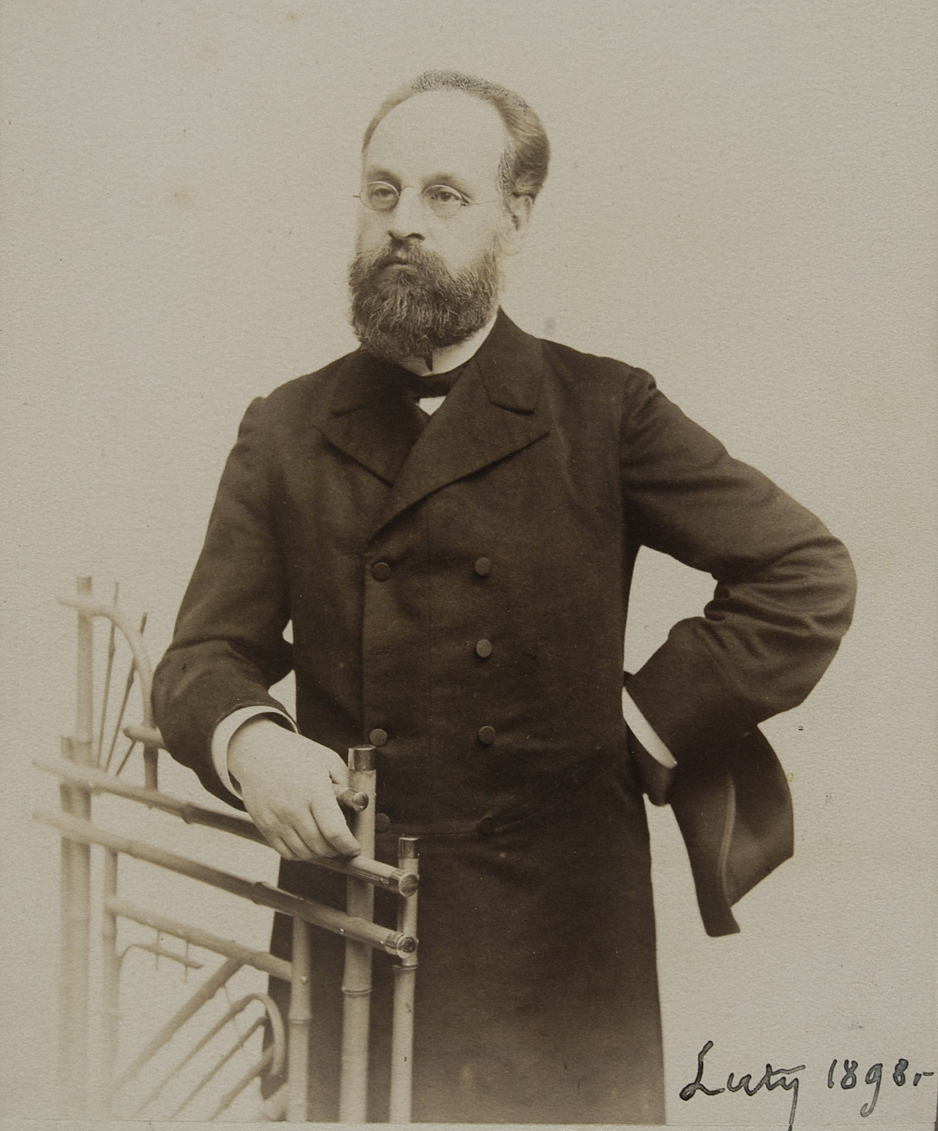 Konrad Prószyński, 1898 r.